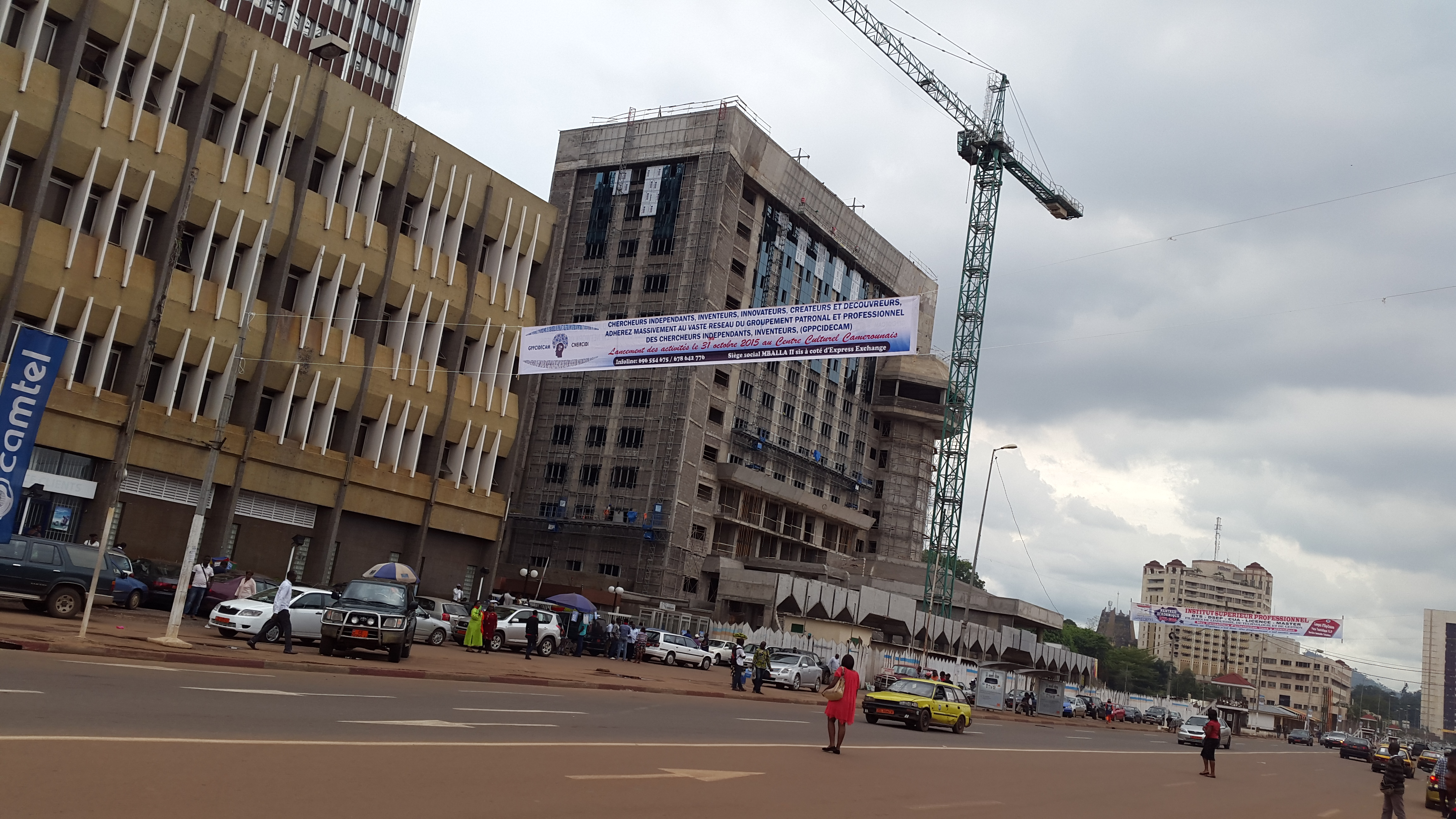 A perspective view of part of the Camtel building in Yaoundé Central post office, in front of casino This is an image of "African people at work" from Cameroon